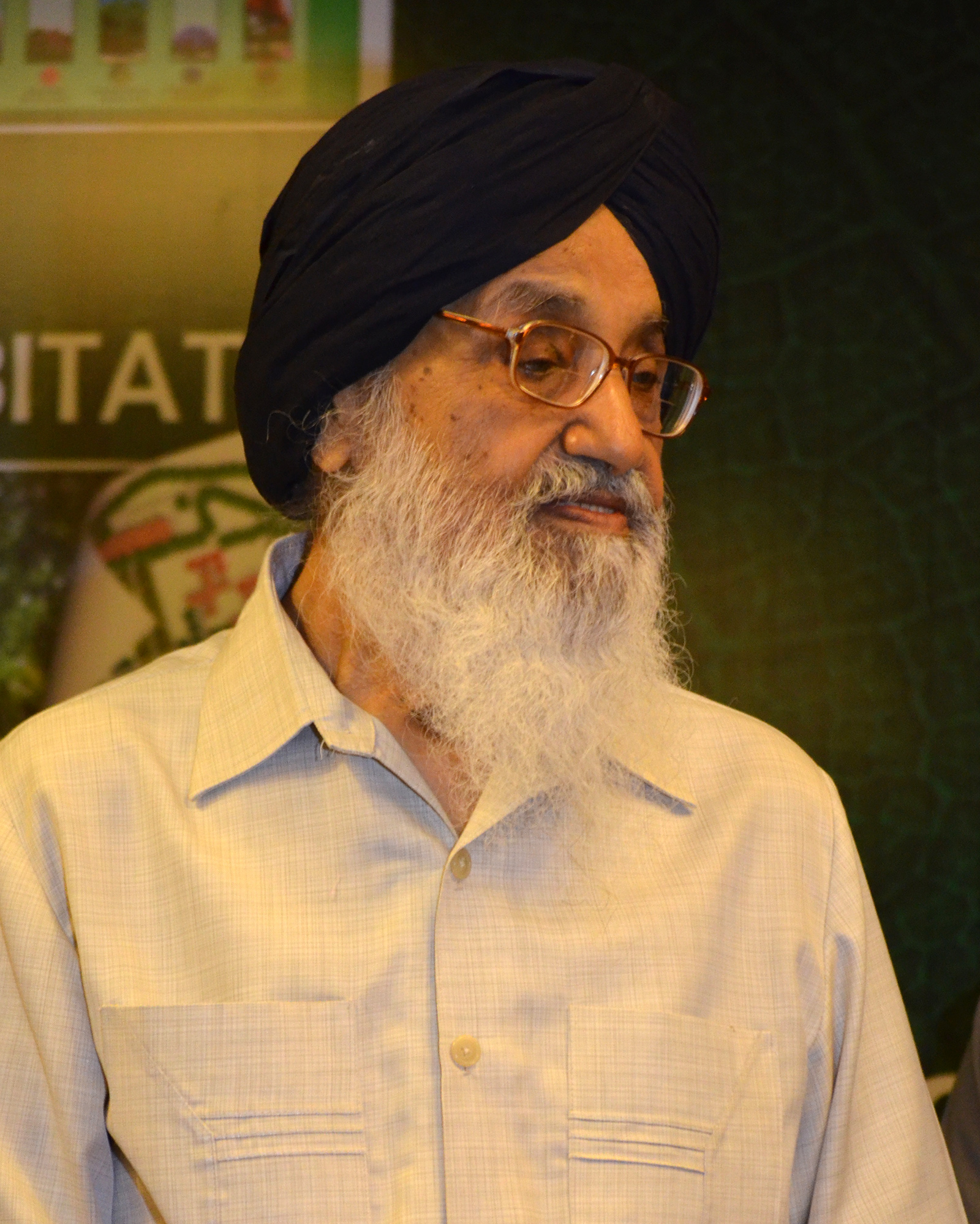 Parkash Singh Badal at Chandigarh Golf Club for a book launch ceremony